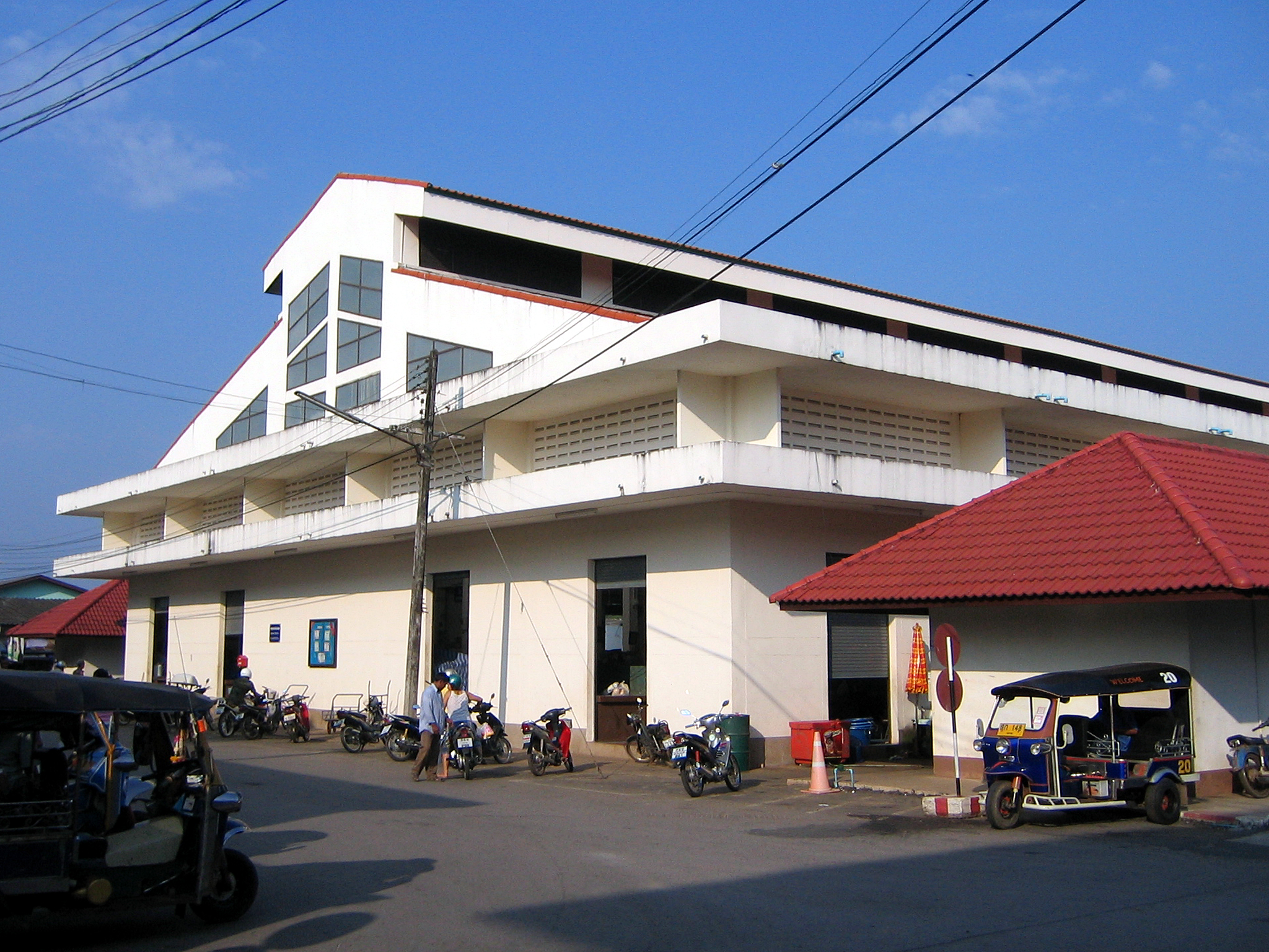 The covered market (Talat) in Thesaban Bo Ploy, Amphoe Bo Rai, Trat Province, Thailand, with three-wheeled tuk-tuks waiting for passengers.